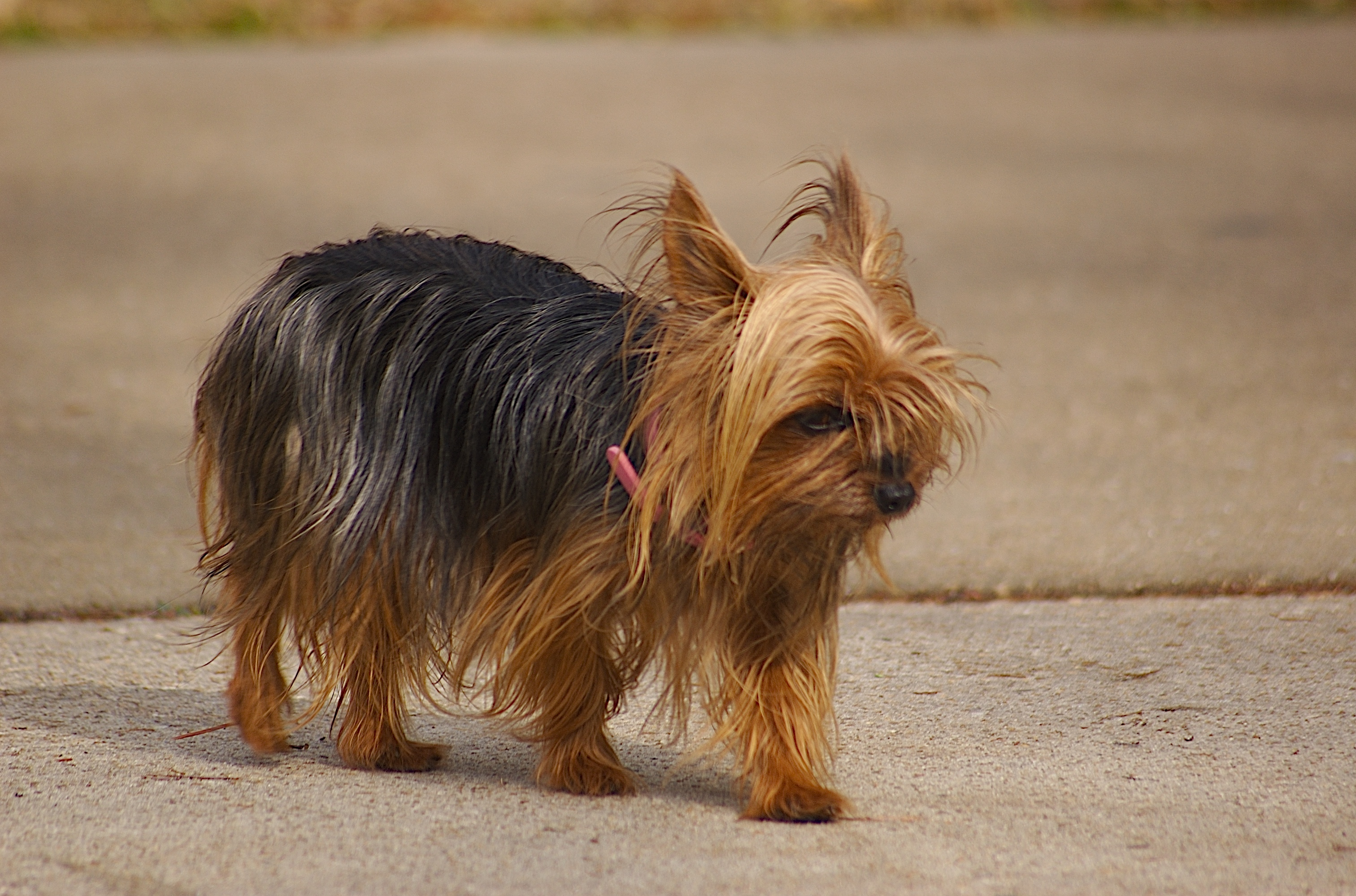 A Teacup Yorkie